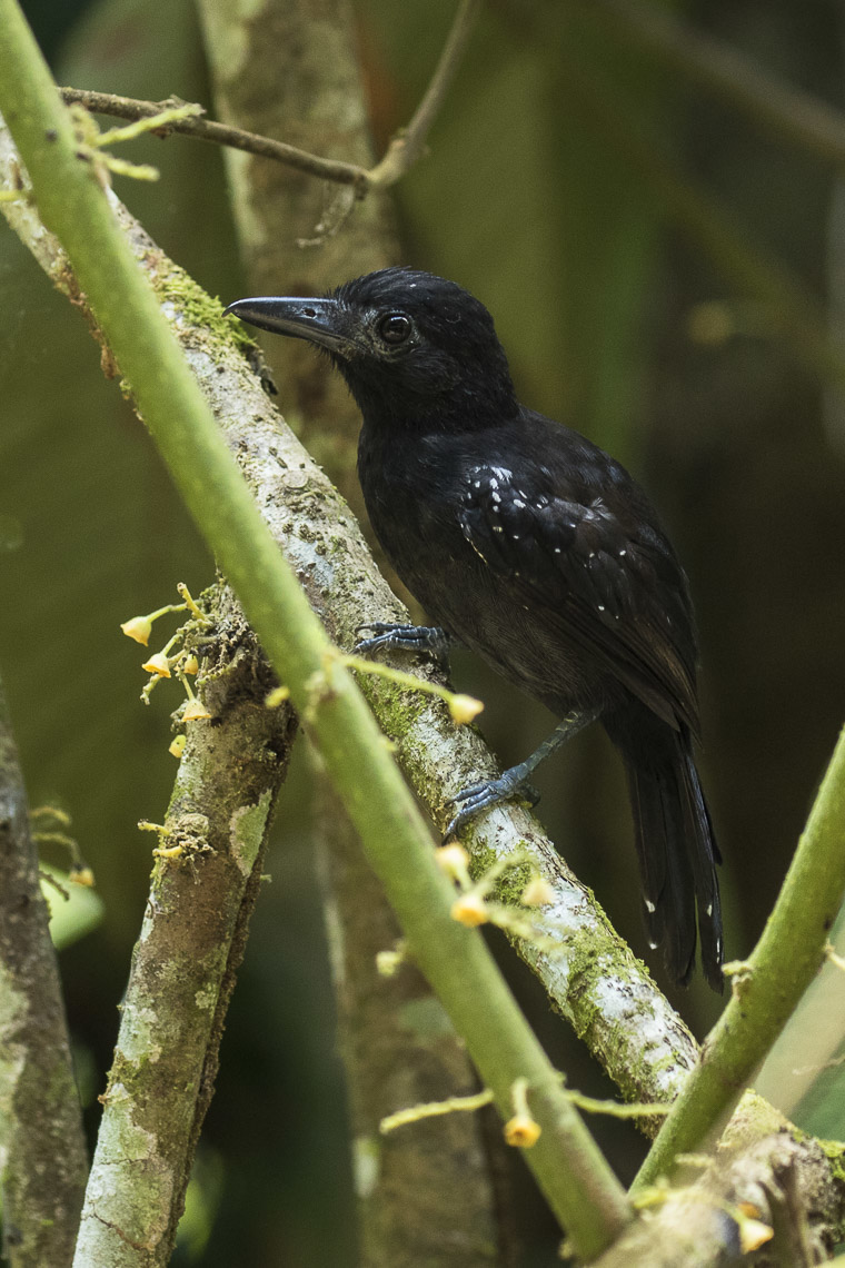 Black-hooded Antshrike - Rio Tigre - Costa Rica_MG_8351